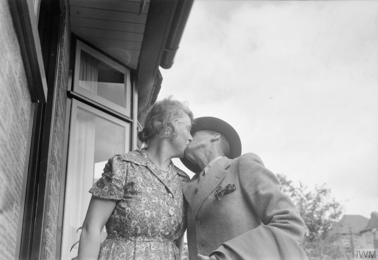 Demobilisation of the British Army Mr C Stilwell returns to his home in Farnham, Surrey, after being demobbed and is greeted by his wife.